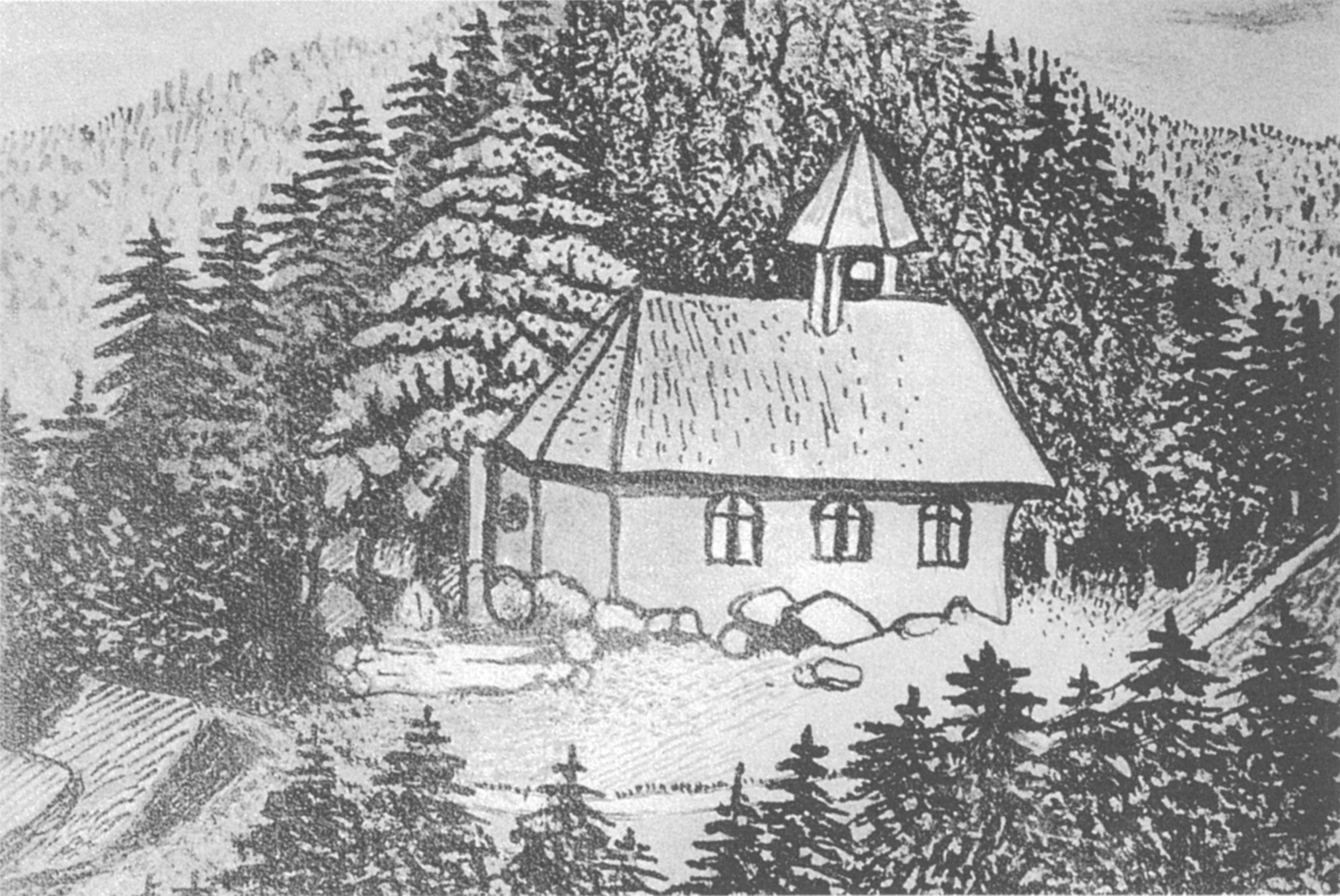 PIlgrimage church Maria in der Tann, Triberg, as in 1697